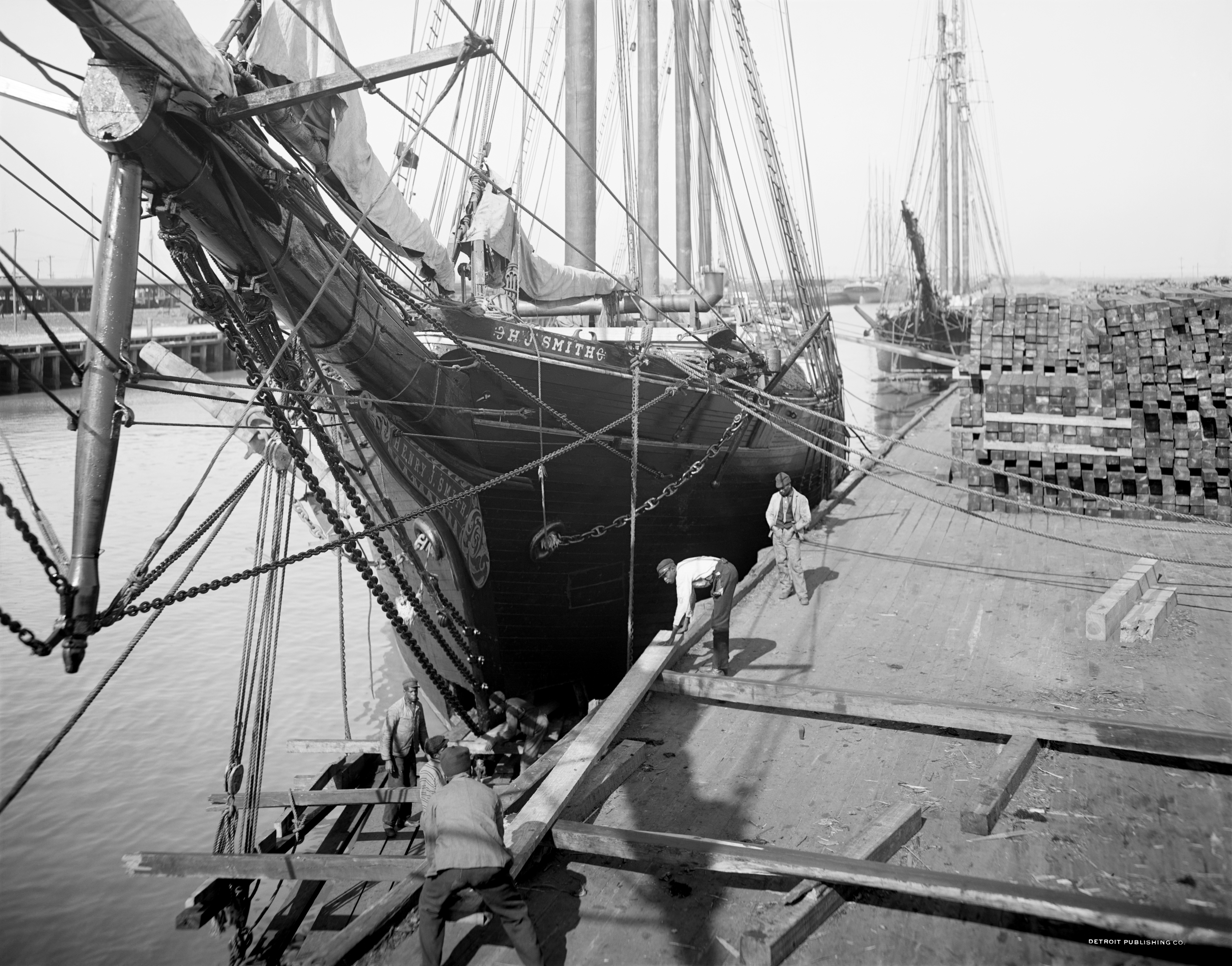 Loading a lumber schooner, Savannah, Georgia, US.